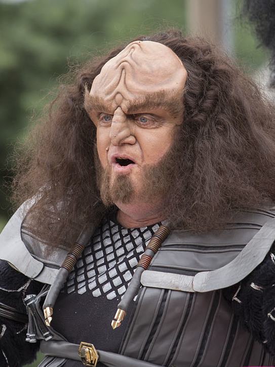 Annual Parade for Trek Fest in Riverside, Iowa.